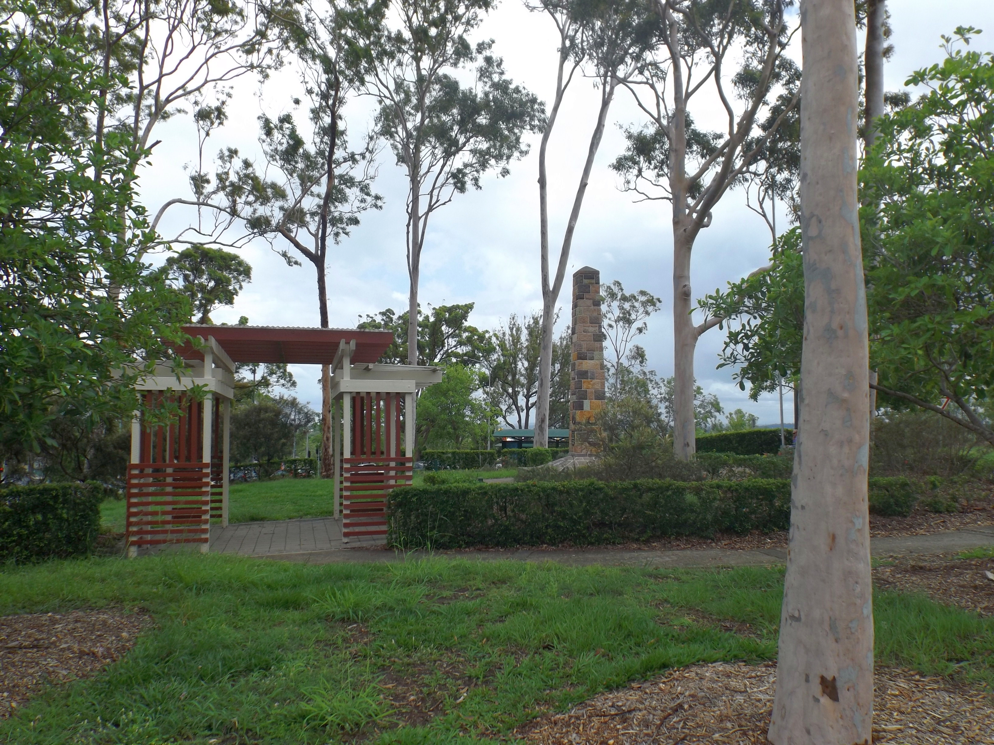 Photo of Gair Park in Dutton Park, Brisbane, Queensland, Australia.